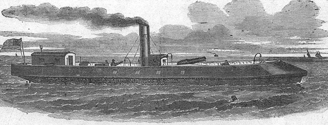 USS Naugatuck (1862) Photo #: NH 58871 Line engraving published in Harper's Weekly, circa spring 1862, when the gunboat was operating in the Hampton Roads area, Virginia. U.S. Naval Historical Center Photograph.